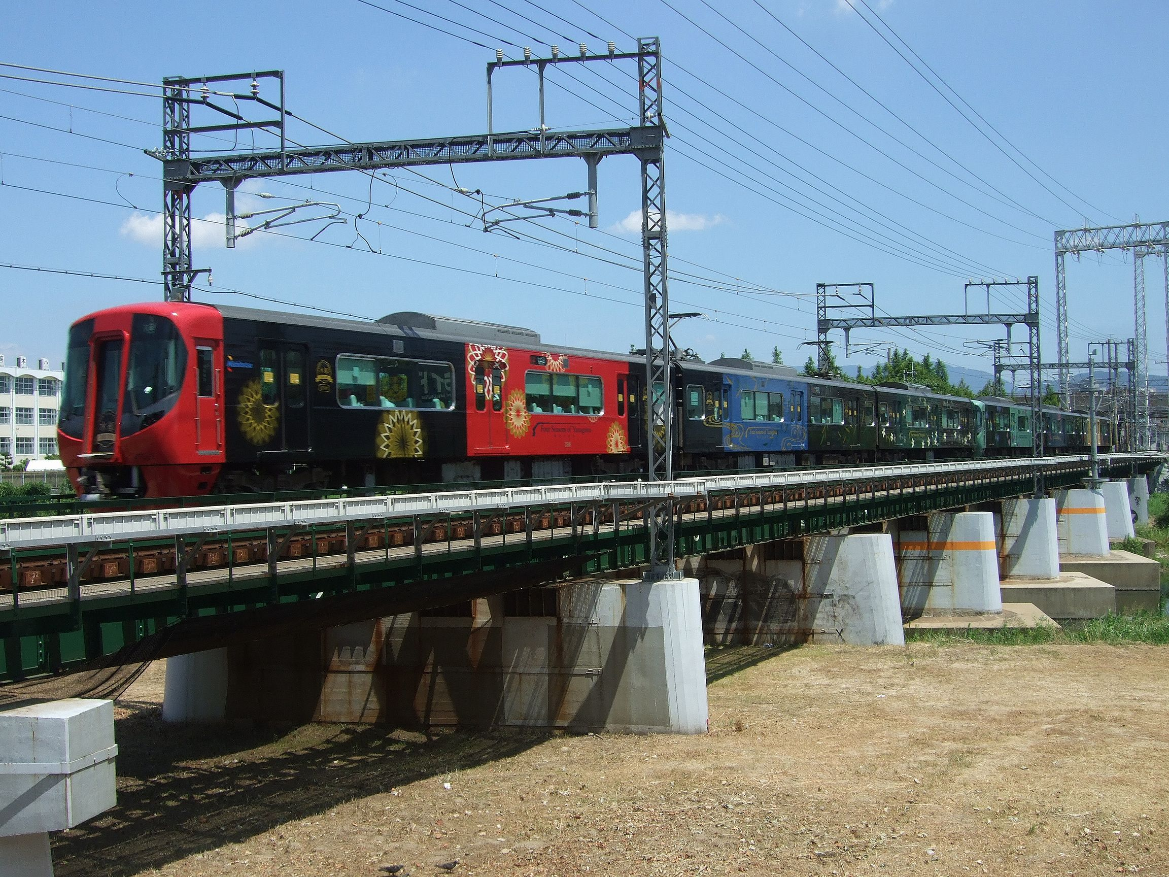 Nishi Nippon Railroad EMU Type3000 "Suito" / Formation:3017-3317-3517-3018-3318-3518 / Location:Between Ohashi Station and Ijiri Station, Minami Ward, Fukuoka City, Fukuoka, Japan.